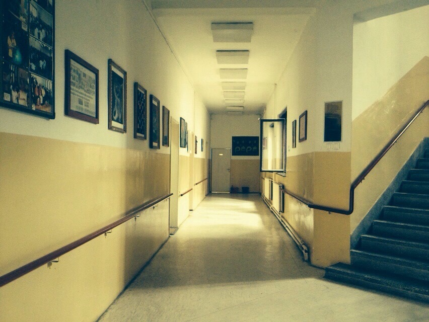 The school for visually impaired - peja